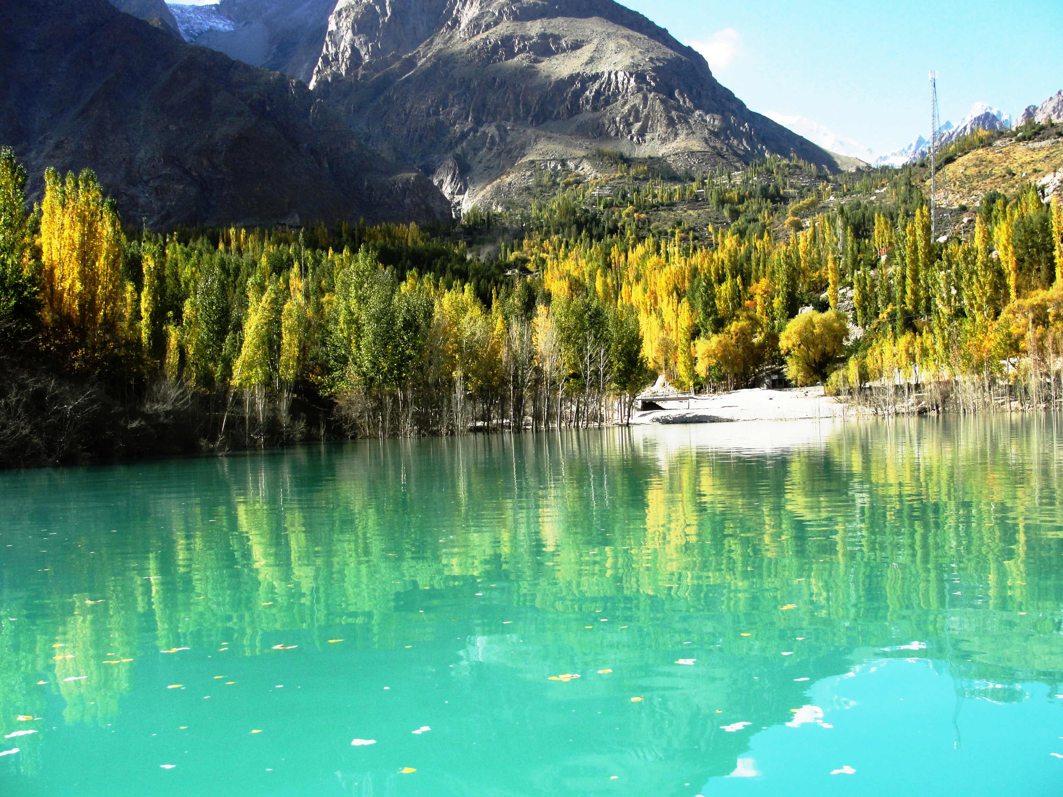 A photograph of Gulmit taken during autumn